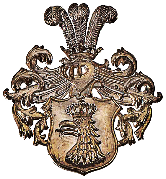 von Mackensen family coat of arm